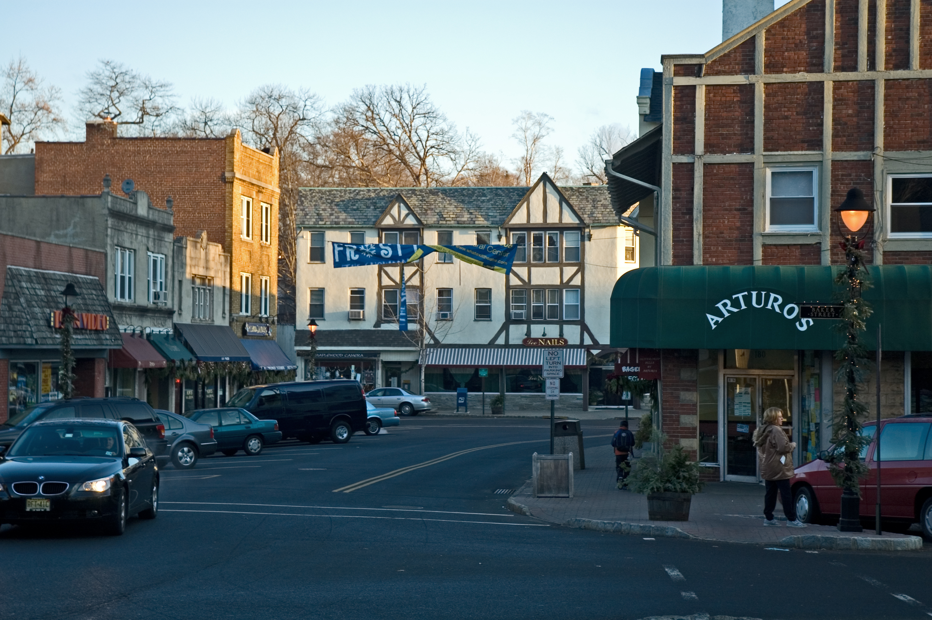 Maplewood Avenue at Maplewood center, New Jersey village.